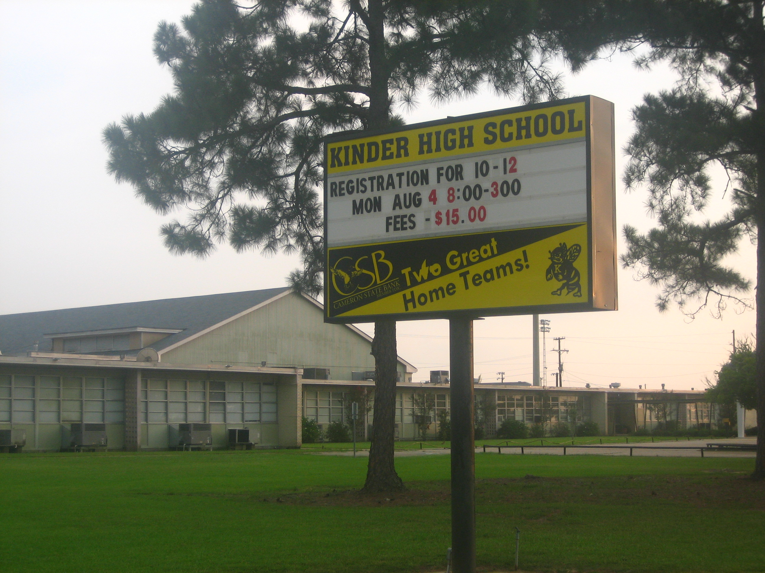 Kinder High School in Kinder, Louisiana. Source I took photo on July 31, 2008.Billy Hathorn (talk) 01:41, 7 September 2008 (UTC)